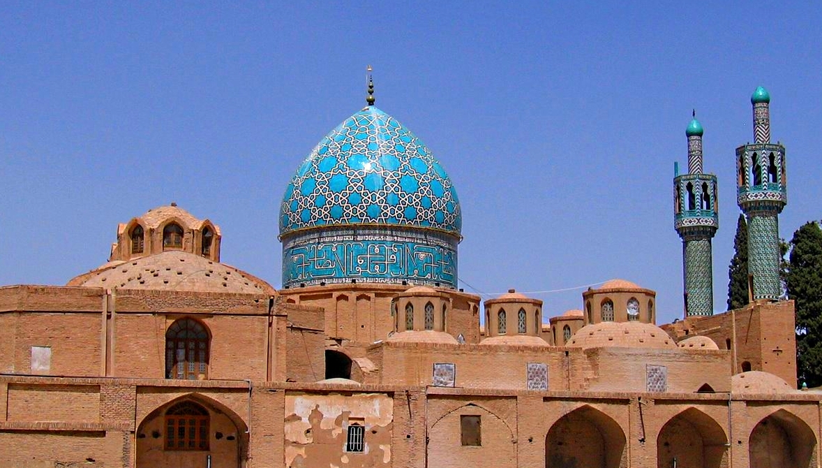 Tiled dome and minarets, with cupolas, of the adobe Shrine of Shah Nematollah Vali — in Mahan, Kerman province, southern Iran.